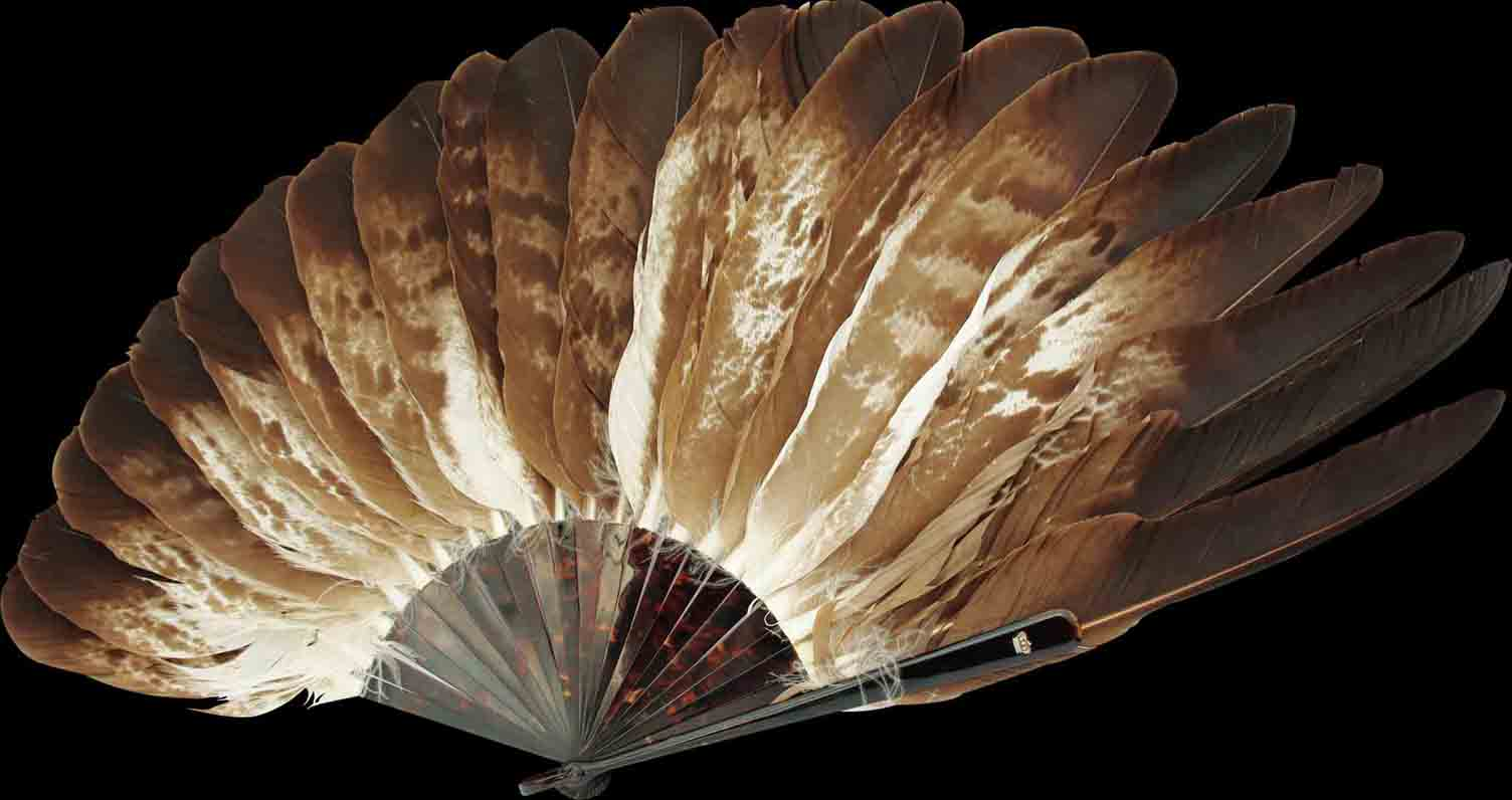 Hand fan by Duvelleroy, ca 1900, tortoiseshell, eagle feathers